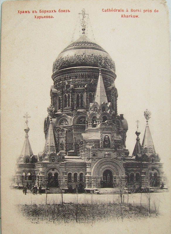 Cathedral of Christ the Savoir in Borki near Kharkov